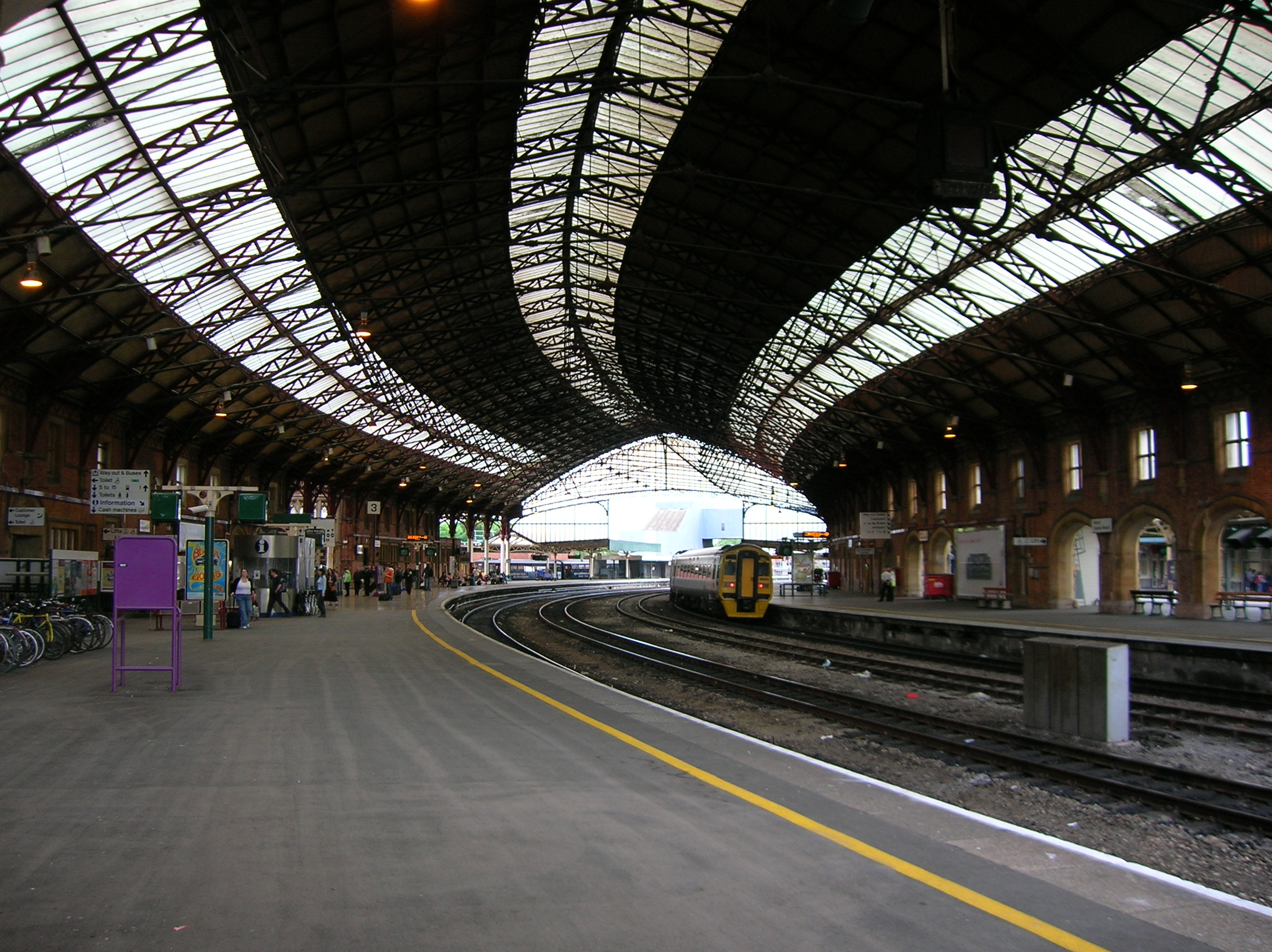 The interior of the 1871–8 train shed at Bristol Temple Meads, with platform 3/4 in the foreground and platform 5/6 on the right. The architect was Matthew Digby Wyatt, and the structural engineer was Francis Fox.